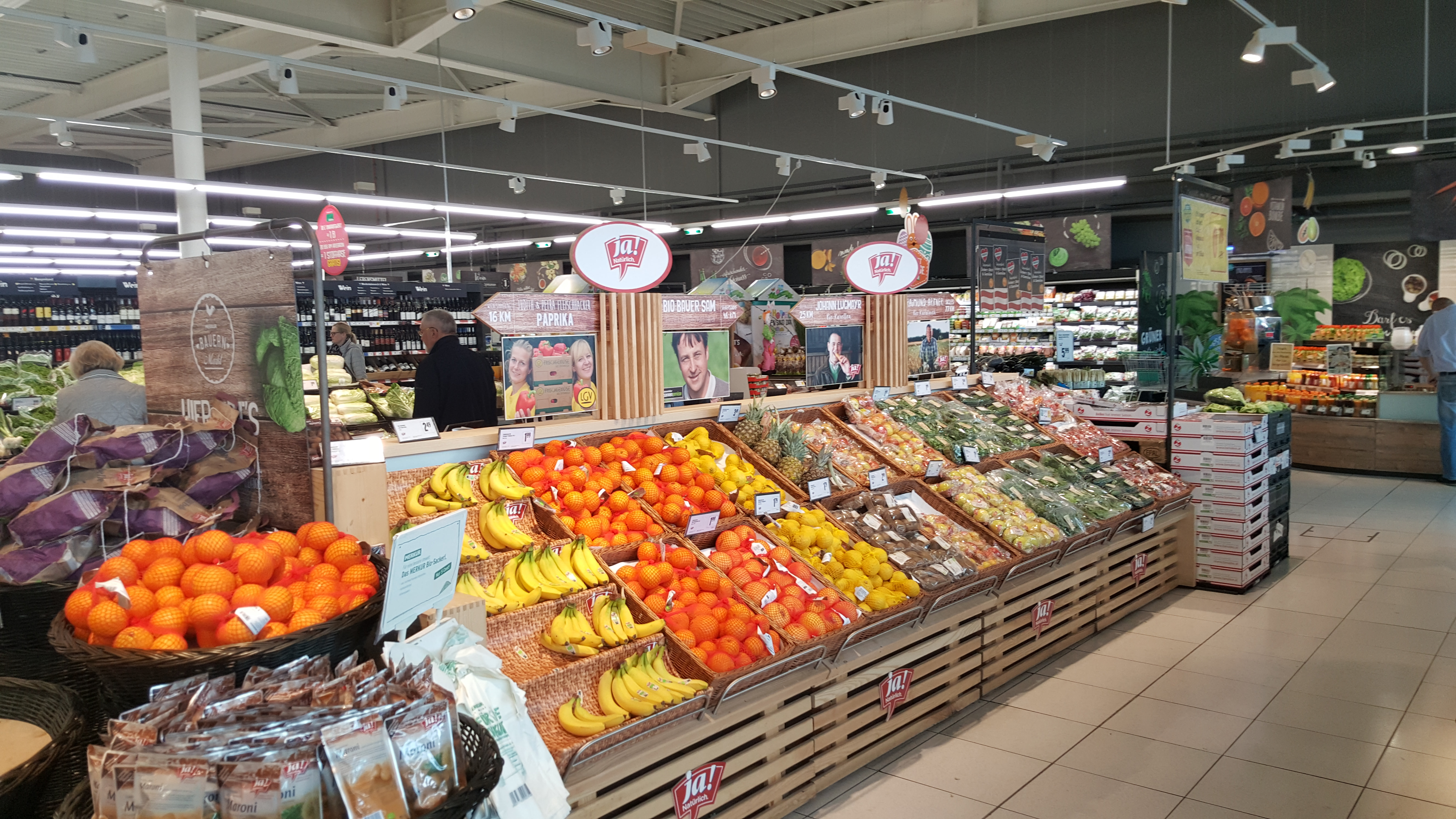 Hypermarket Merkur Austria - Vienna Floridsdorf - 05.04.2017